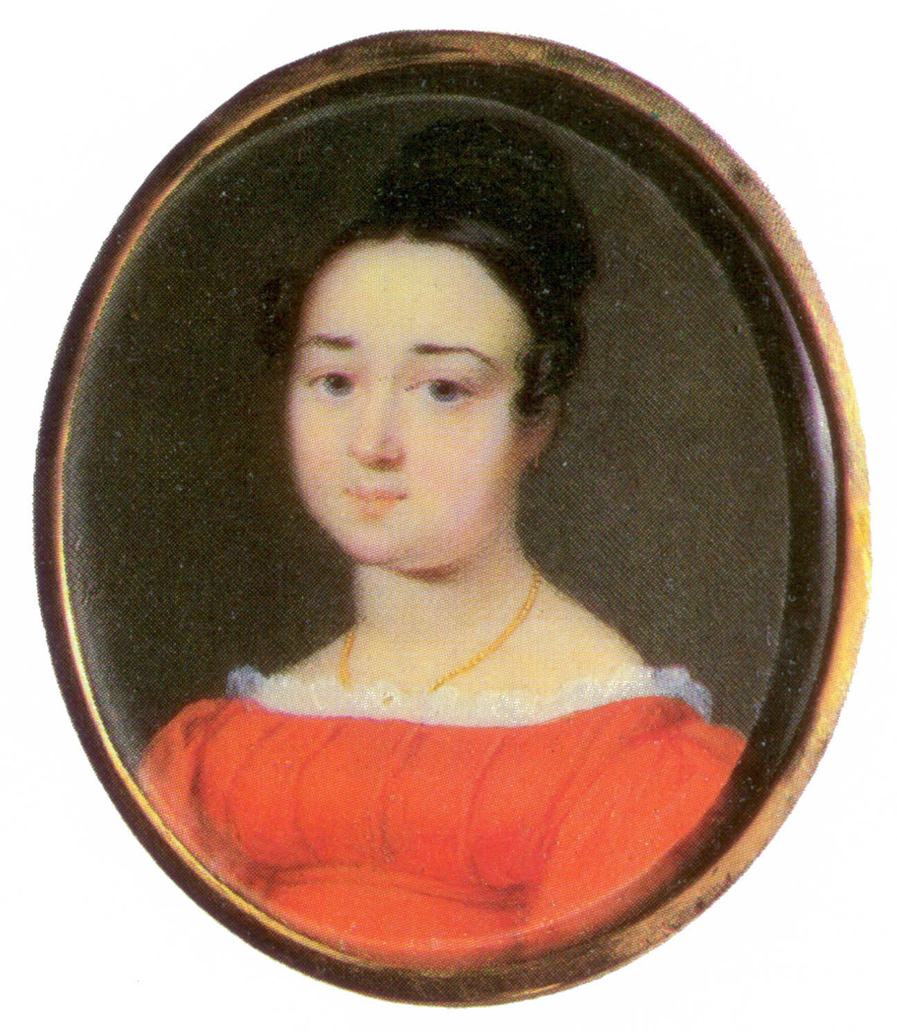 Alexey Tyranov. Portrait of Princess Maria Dolgorukova. 1820s. Miniature. The History Museum, Moscow, Russia Princess Maria Dolgorukova, née Saltykova (1795-1823), wife of the General of Cavalry, Adjutant-General, Prince N. A. Dolgorukov.